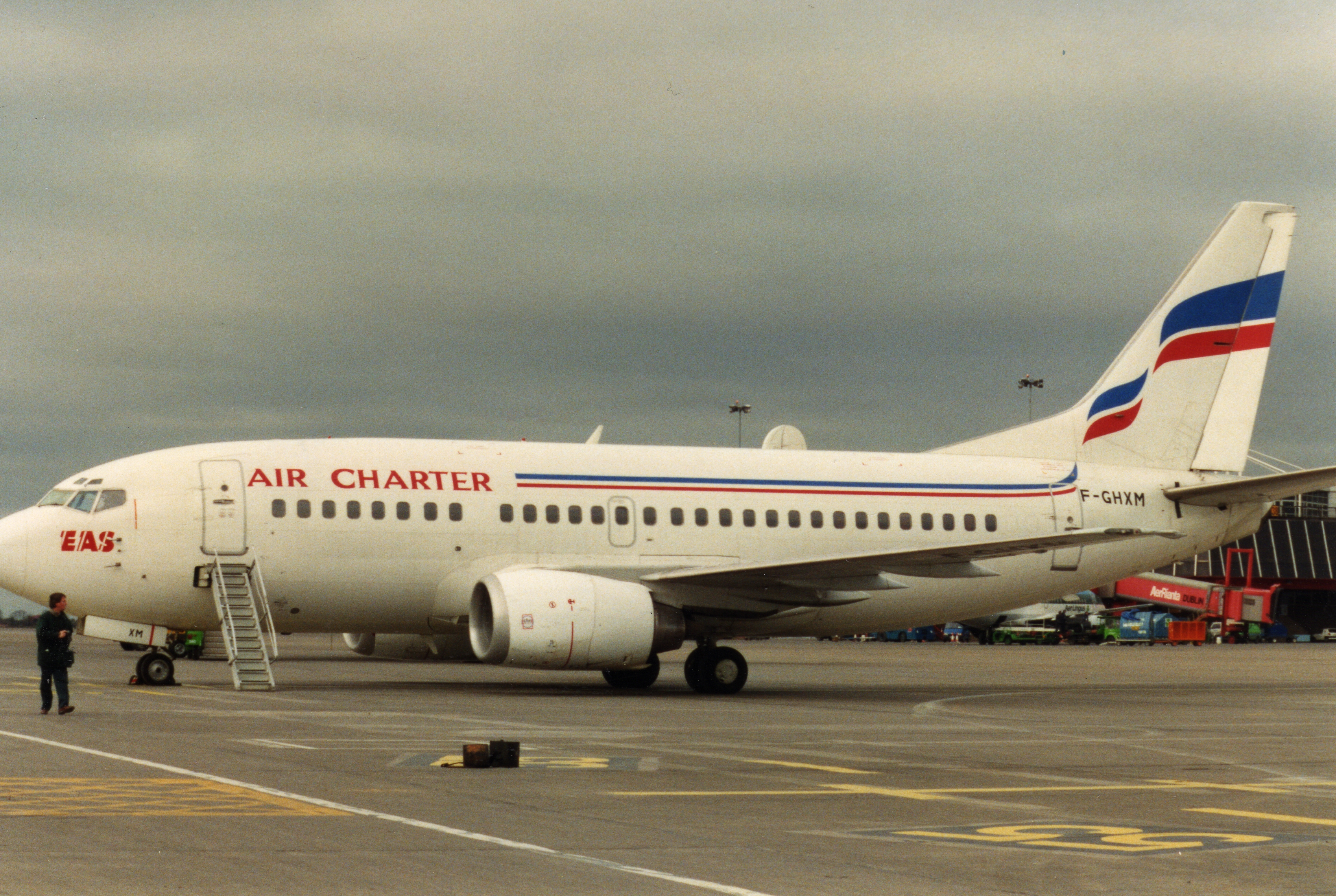 EAS Europe Airlines (F-GHXM) Boeing 737-500 aircraft, Dublin Airport, Dublin, Republic of Ireland, February 1993